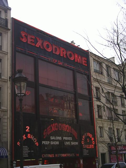 23 Boulevard de Clichy in Paris. Taken in March 2005